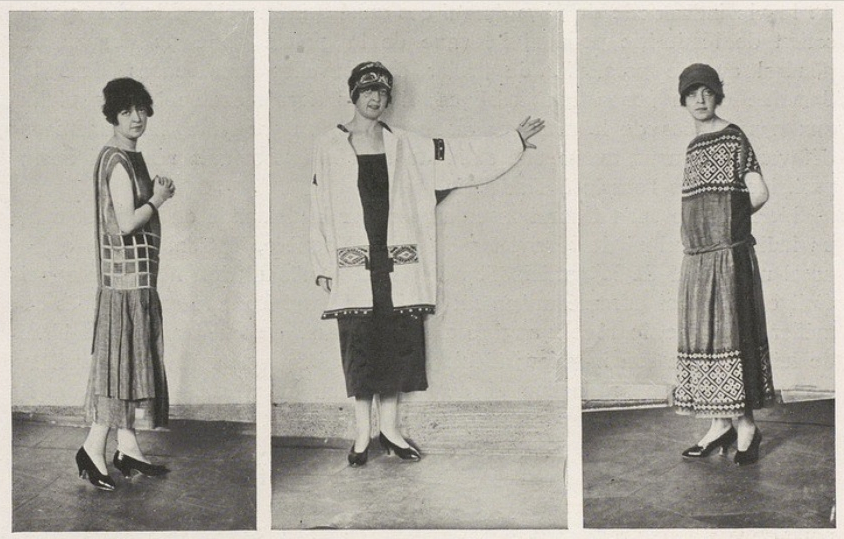 Nadezhda Lamanova. The models of ladies dresses The models were exhibited at the Exposition internationale des Arts décoratifs et industriels modernes (1925)